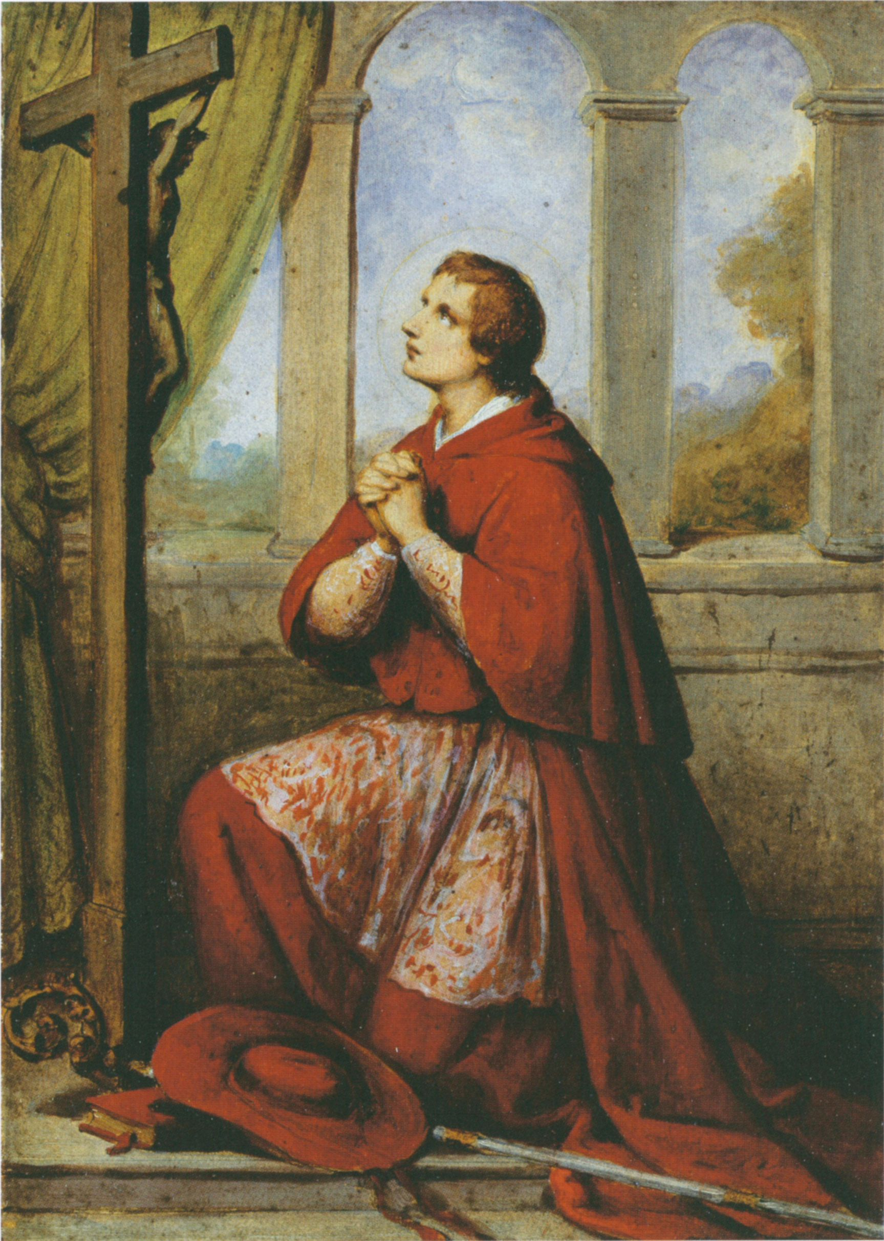 Design for a painting by Marie Ellenrieder in the church St. Karl Borromäus in Diersburg, Hohberg, Baden-Württemberg, Germany. The design (an the painting based on it) shows saint Charles Borromäus.